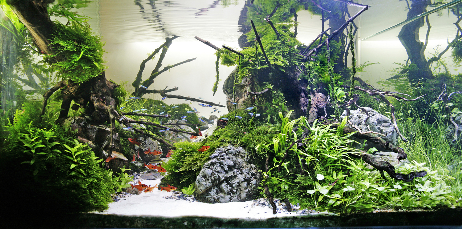 Michael Leroy